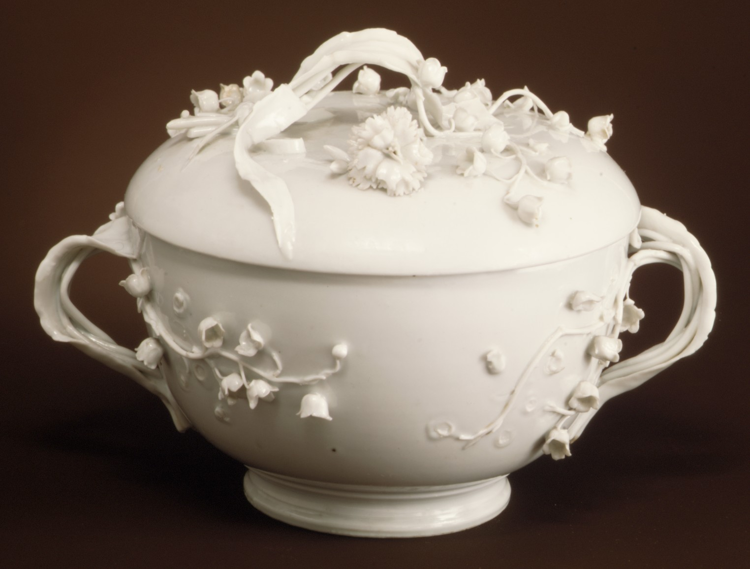 Italian, Venice; Porringer with cover; Ceramics-Porcelain